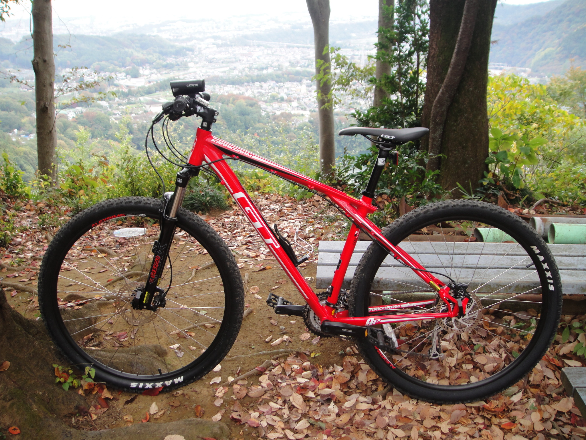 GT Bicycles GT Karakoram3.0 red 2013model